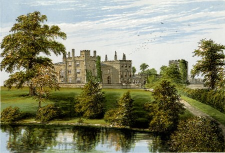 Ripley Castle Baxter print c. 1880